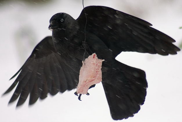 Corvus monedula Photo taken in Rumia, Poland by Adam Kumiszcza.